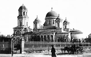 St. Alexander Nevsky Cathedral in Simferopol, Russian Empire